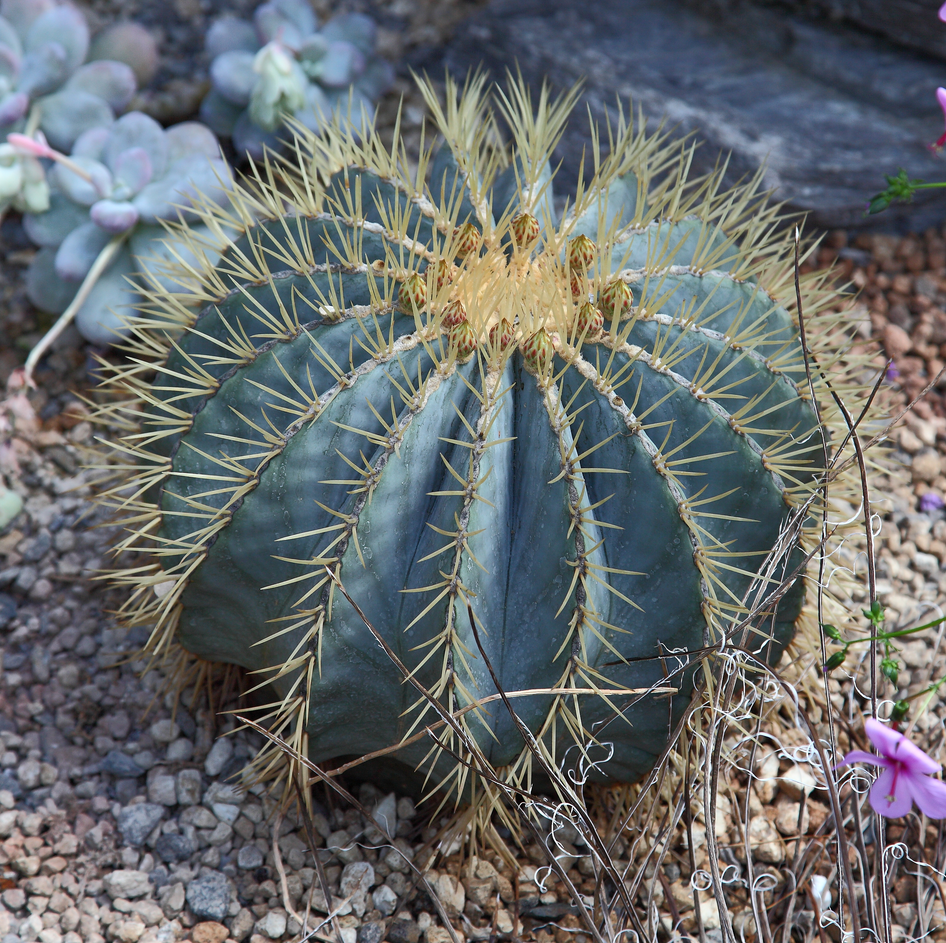 Ferocactus glaucescens, Botanic Garden, Munich, Germany